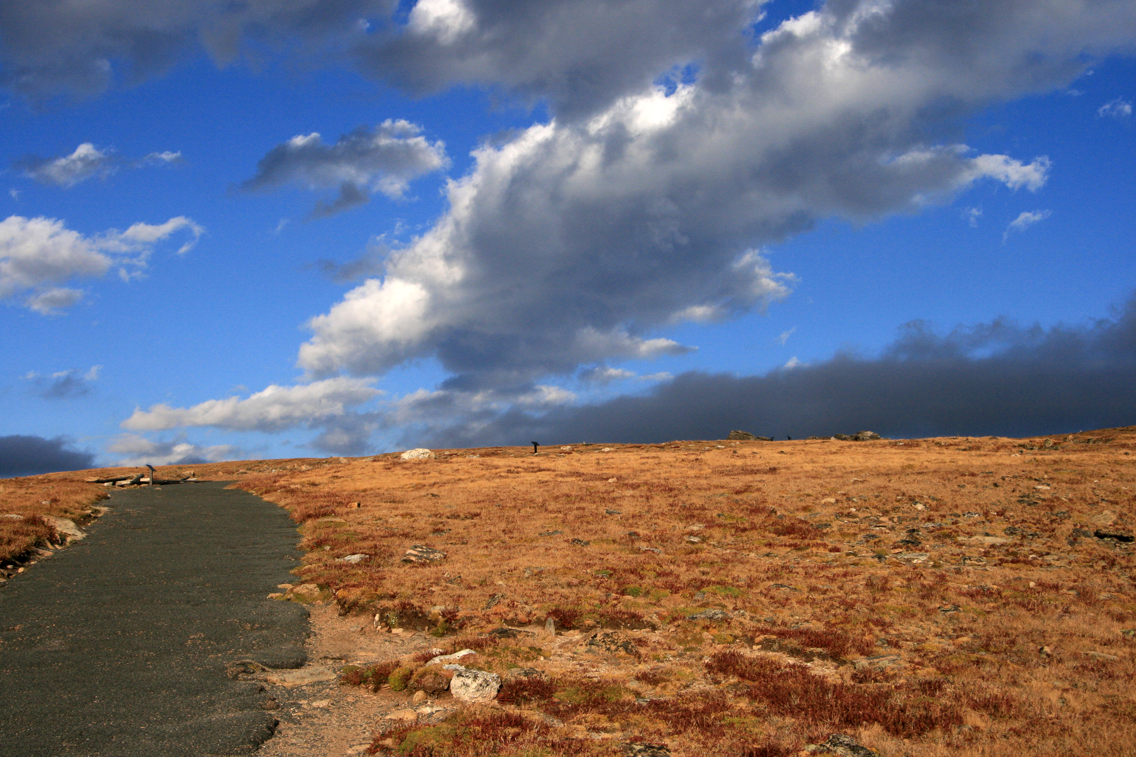 Alpine field